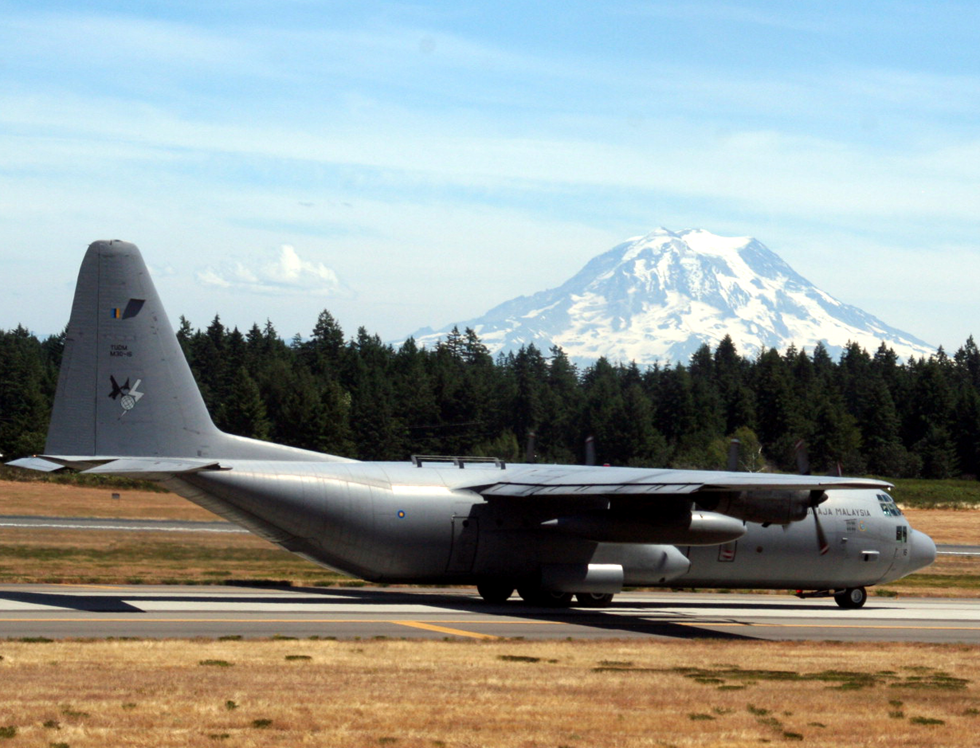 A Malaysian air force plane participating in Air Mobility Command's Rodeo 2009 takes off from McChord Air Force Base, for a flight. Malaysia is one of several foreign competitors in RODEO 2009. RODEO is the mobility air force's readiness competition.